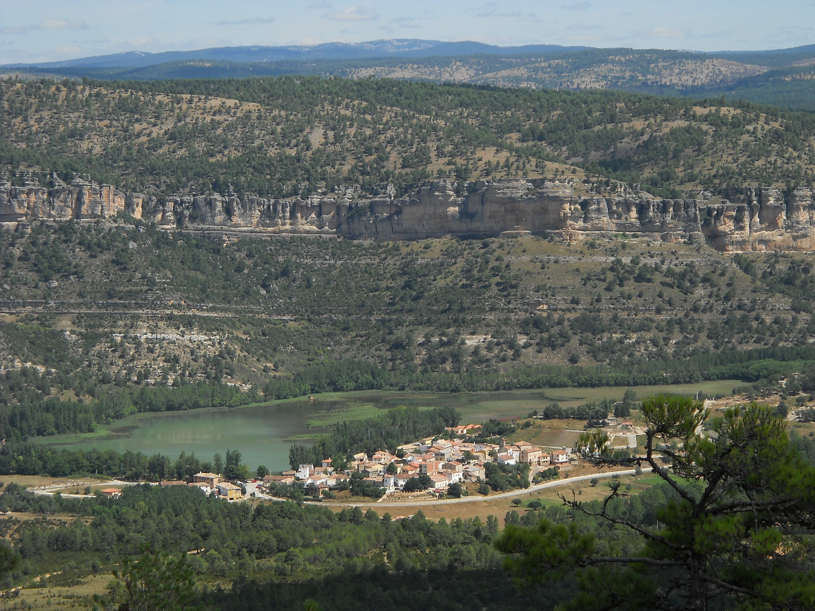 View of Uña, Cuenca, Spain from Mirador de Uña